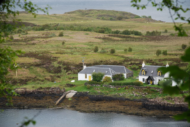 Calve Island, Mull The only buildings on Calve Island, pictured from the shore of Mull just SouthEast of Tobermory. Showing a slipway and, partly obscured by leaves on the left, a diamond shaped sign indicating underwater cables.